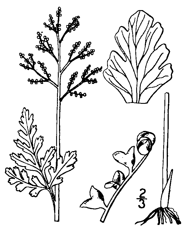 Fig. Botrychium matricariifolium from Vol. 1 of An Illustrated Flora of the Northern United States, Canada and the British Possessions